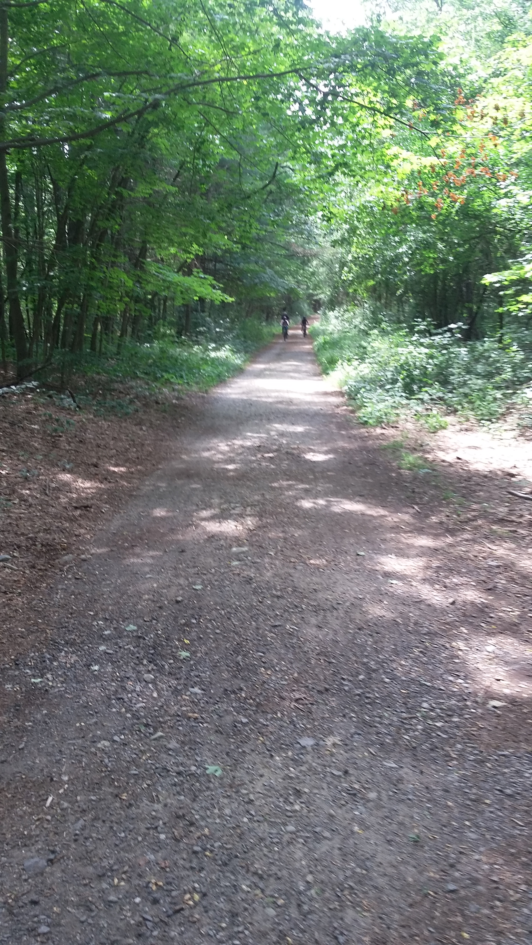 Assabet River Wildlife Sanctuary near Old Marlboro Road entrance in Maynard MA